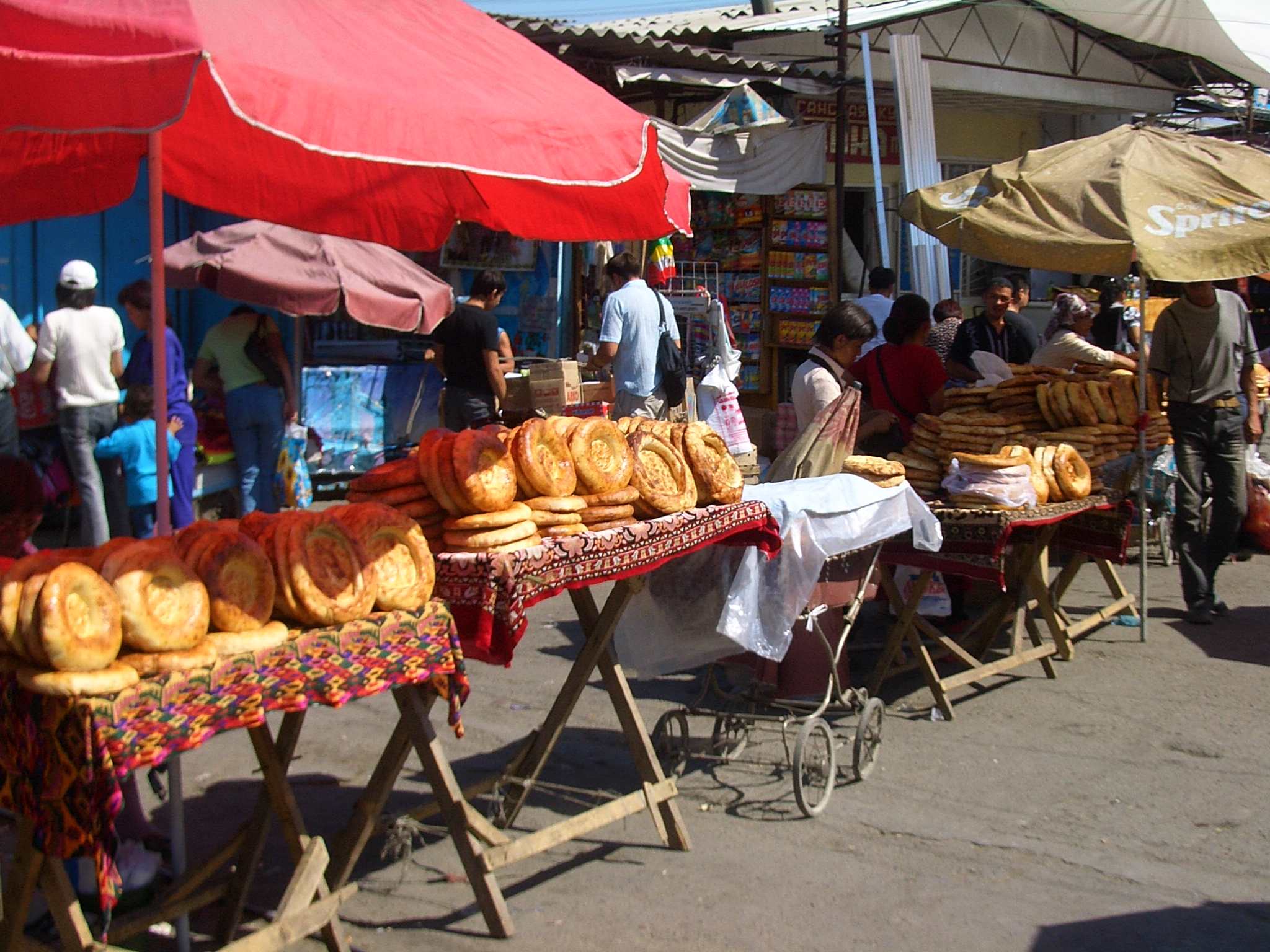 Bread (naan) vendors in Dordoy Bazaar, Bishkek.